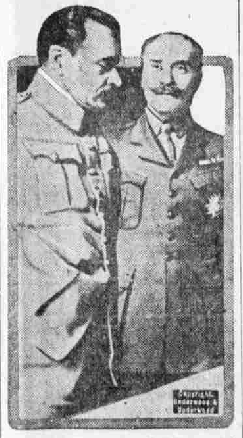 Polish General Haller shown with French General Henrys. Newspaper photo.